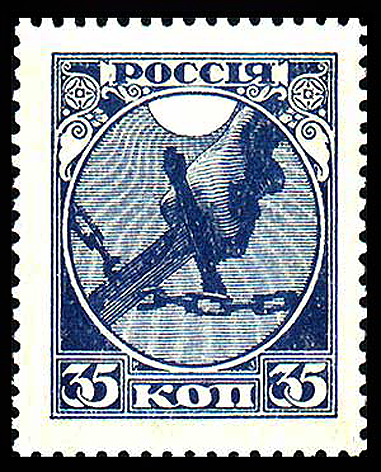 Stamp of RSFSRː Hand with the sword splitting chain against a rising sun. Symbolizes severing chain of bondage. Blue. Face value: 35k. Issueː 1st Anniversary of the Great October Revolution. The First Revolutionary Issue of RSFSR Stamps